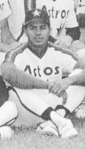 Team photo for the 1988 Auburn Astros baseball team of the New York–Penn League, taken at Falcon Park in Auburn, New York. Sitting: Batboy Scott Marshall, Kenny Lofton, Larry Lamphere, Andy Mota, Scott Spurgeon, Harry Fuller, Mica Lewis, Dave Shermet. Kneeling: Office Assistant Joe Kehoskie, Administrative Assistant Pat Penafeather, John Massarelli, Mike Beams, Rod Scheckla, Kenny Morris, Rodney Windes, Rick Dunnum, Luis Gonzalez, Trainer Ron Porterfield. Standing: Assistant General Manager John Graham, Manager Frank Cacciatore, Neder Horta, Jim DeSapio, Wally Trice, Chris Small, Bernie Jenkins, Dennis Tafoya, Gordy Farmer, David Klinefelter, Pitching Coach Rick Wise, General Manager Bob Neal. (Also pictured: Congressman Frank Horton.)